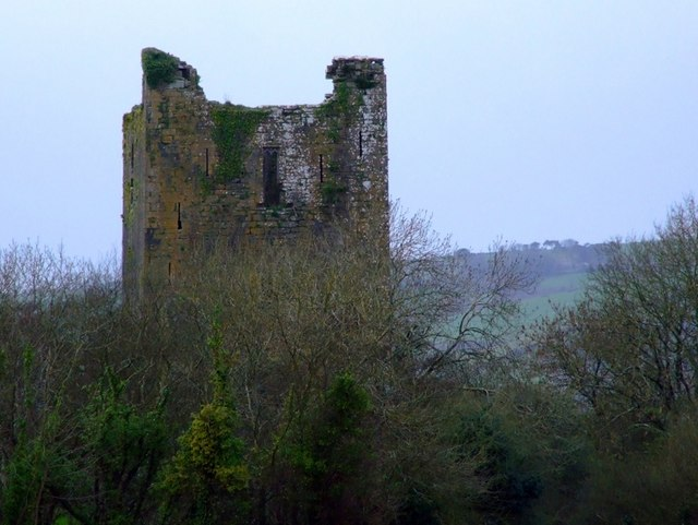 Kilcrea Castle, Farran, Co. Cork, near to Farranavarra, Aherla, Farran, Kilcrea and Ballineadig, Cork, Ireland. I don't know much about this castle, except that it was built by a McCarthy.